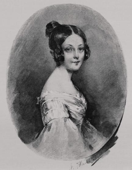 Portrait of Klaudia Rhédey